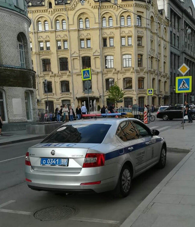 Skoda Octavia used as Police Road Patrol Service vehicle, Moscow